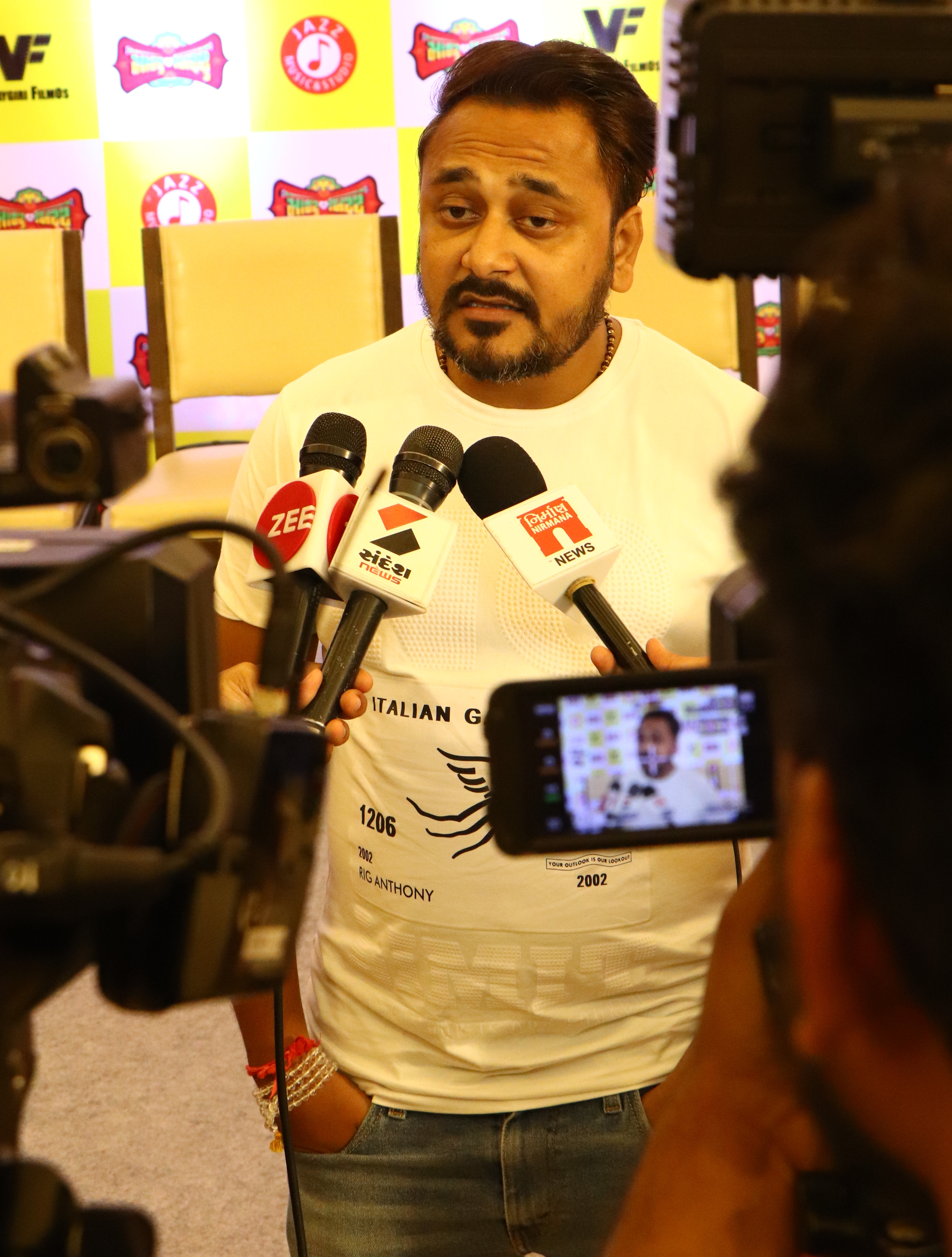 Gujarati Film Director Vijaygiri Bava At Trailor Launch Event Of Montu Ni Bittu